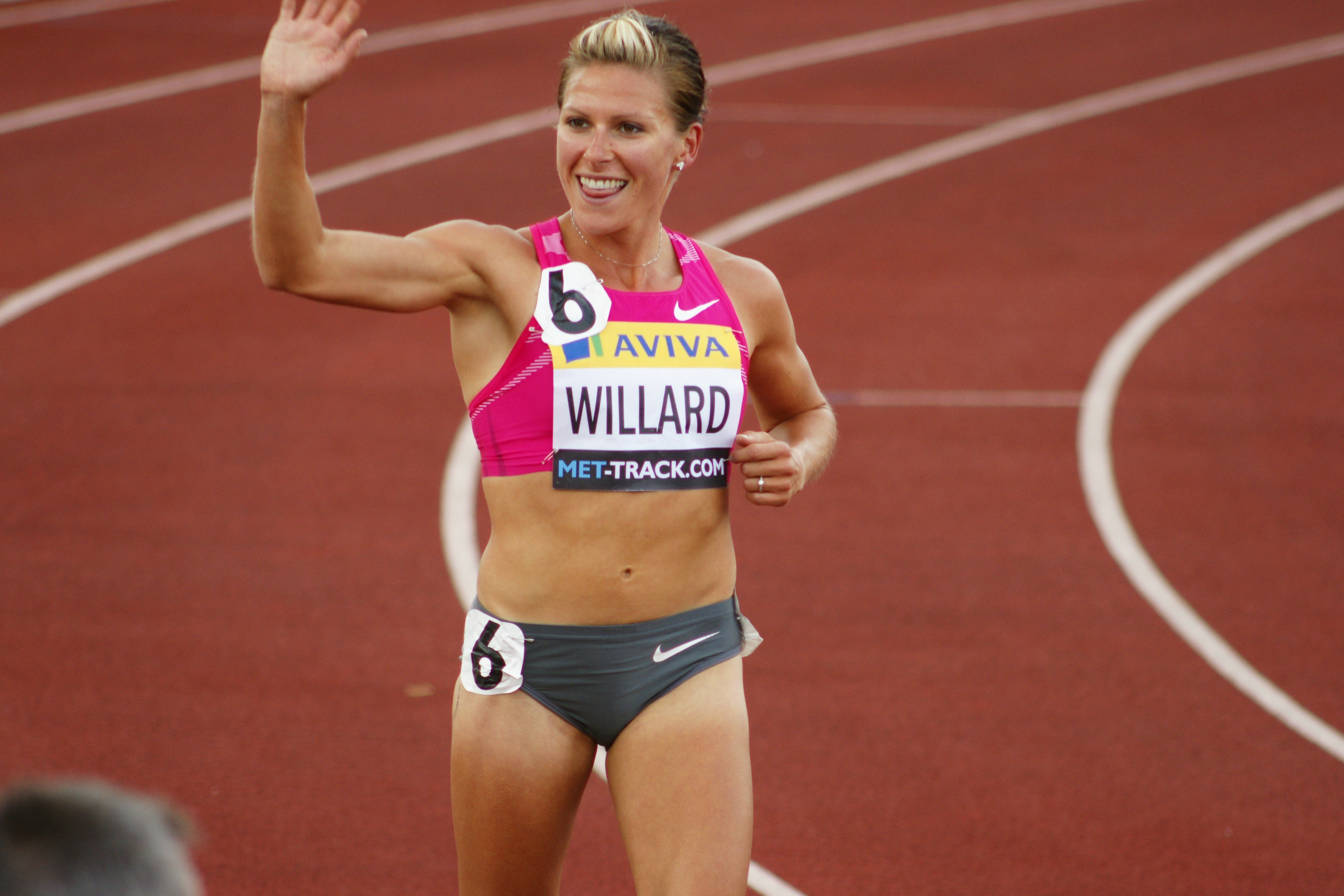 CC-BY-SA (Creative Commons Attribution ShareAlike) for purposes of Wikipedia article only - no other commercial use permitted without explicit permission.